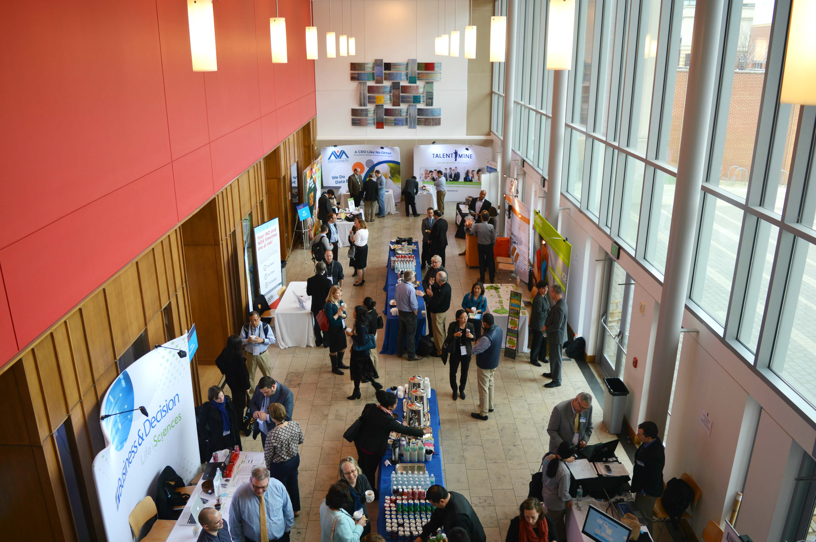 On March 15 – 17, 300 people from FDA (51), CDISC, and industry gathered in Silver Spring, Maryland for the 5th Annual PhUSE Computational Science Symposium (CSS). This event and ongoing collaboration are unique opportunities that bring together key stakeholders to solve current data challenges, explore emerging technologies, and improve the medical product lifecycle. For more information, contact the FDA Office of Computational Science (OCS) Service Desk: Monday – Friday, 8:30 am to 5:00 pm Phone: 240-402-0401 The photos in this album were produced in collaboration by Phuse and FDA/OCS staff. They are free of all copyright restrictions and available for use and redistribution without permission. Credit to the U.S. Food and Drug Administration is appreciated but not required. For more privacy and use information go to